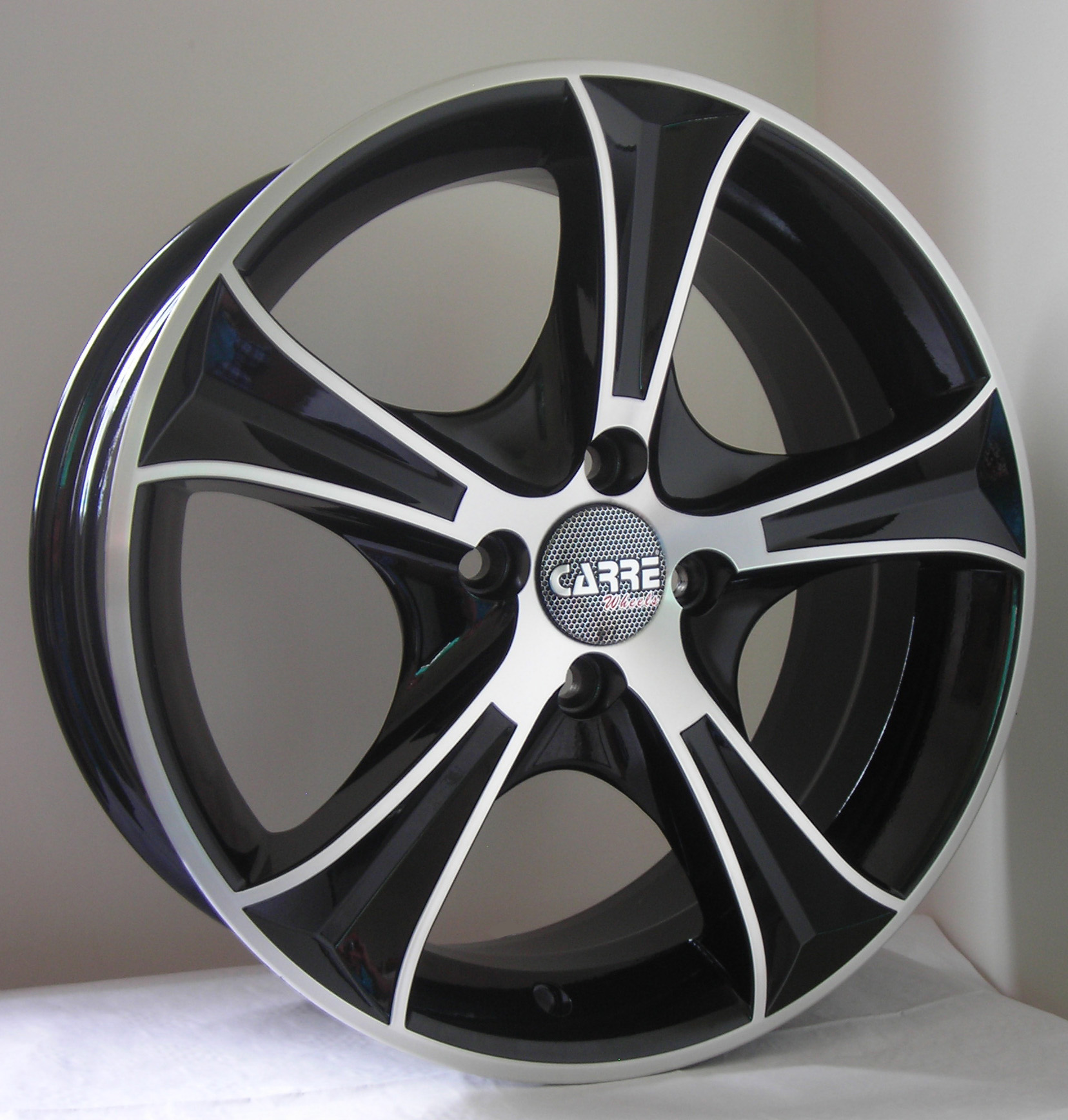 An example of an aftermarket alloy wheel in black diamond finish.